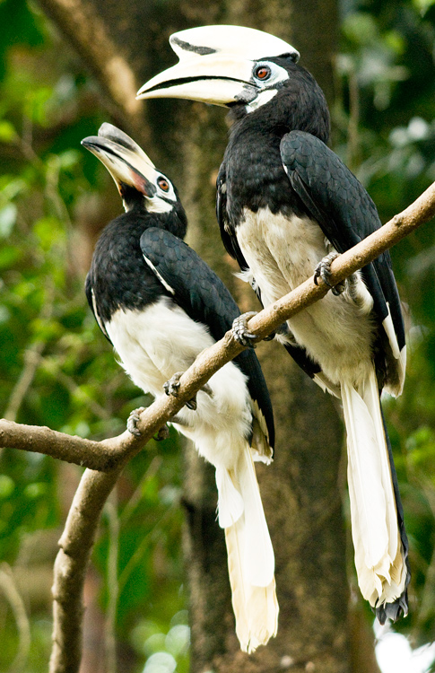 Oriental Pied Hornbills - birds garden in Kuala Lumpur